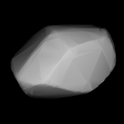 3D convex shape model of 1855 Korolev, computed using light curve inversion techniques. J. Hanuš, J. Ďurech, M. Brož, B. D. Warner (June 2011). "A study of asteroid pole-latitude distribution based on an extended set of shape models derived by the lightcurve inversion method". Astronomy and Astrophysics 530: A134. ISSN 0004-6361. arXiv